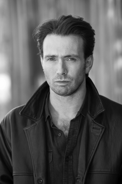 Portrait of Jonathan Green